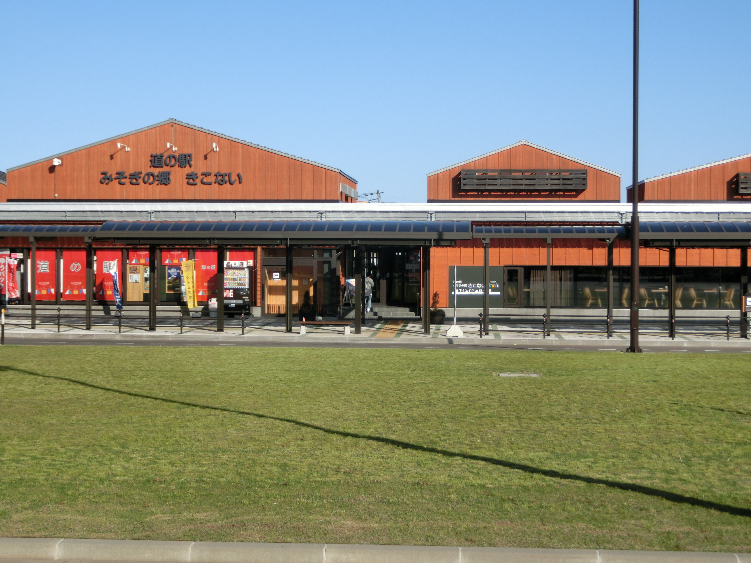 Michinoeki Misogi-no-sato Kikonai